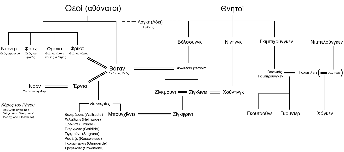 Diagram displaying the characters of The Nibelung's Ring and their relationships. Text in greek.